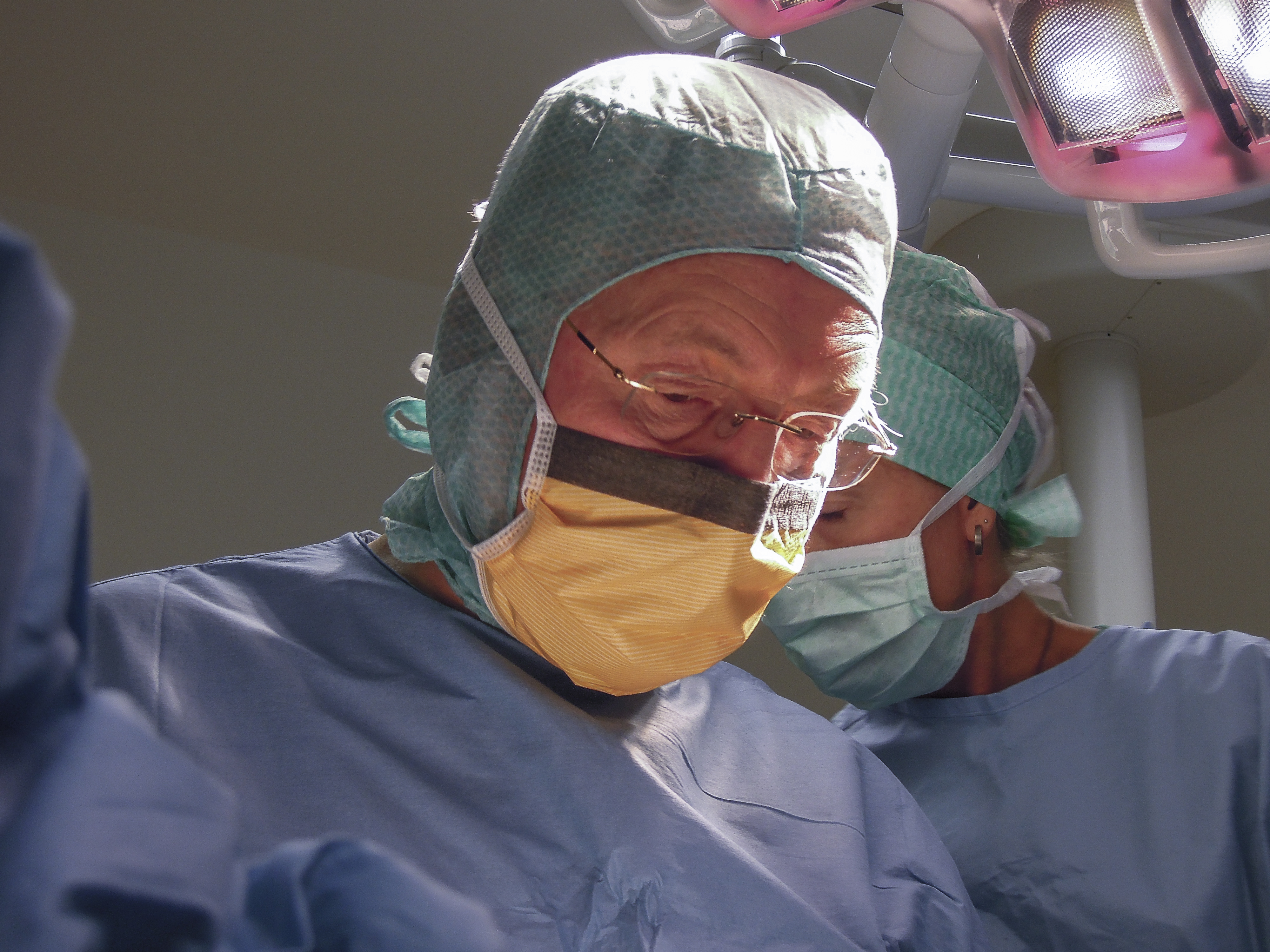 Professor Luc Michel in operating room